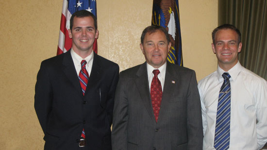 American Israel Public Affairs Committee representatives from Brigham Young University meet with Utah Lt. Governor Gary R. Herbert.